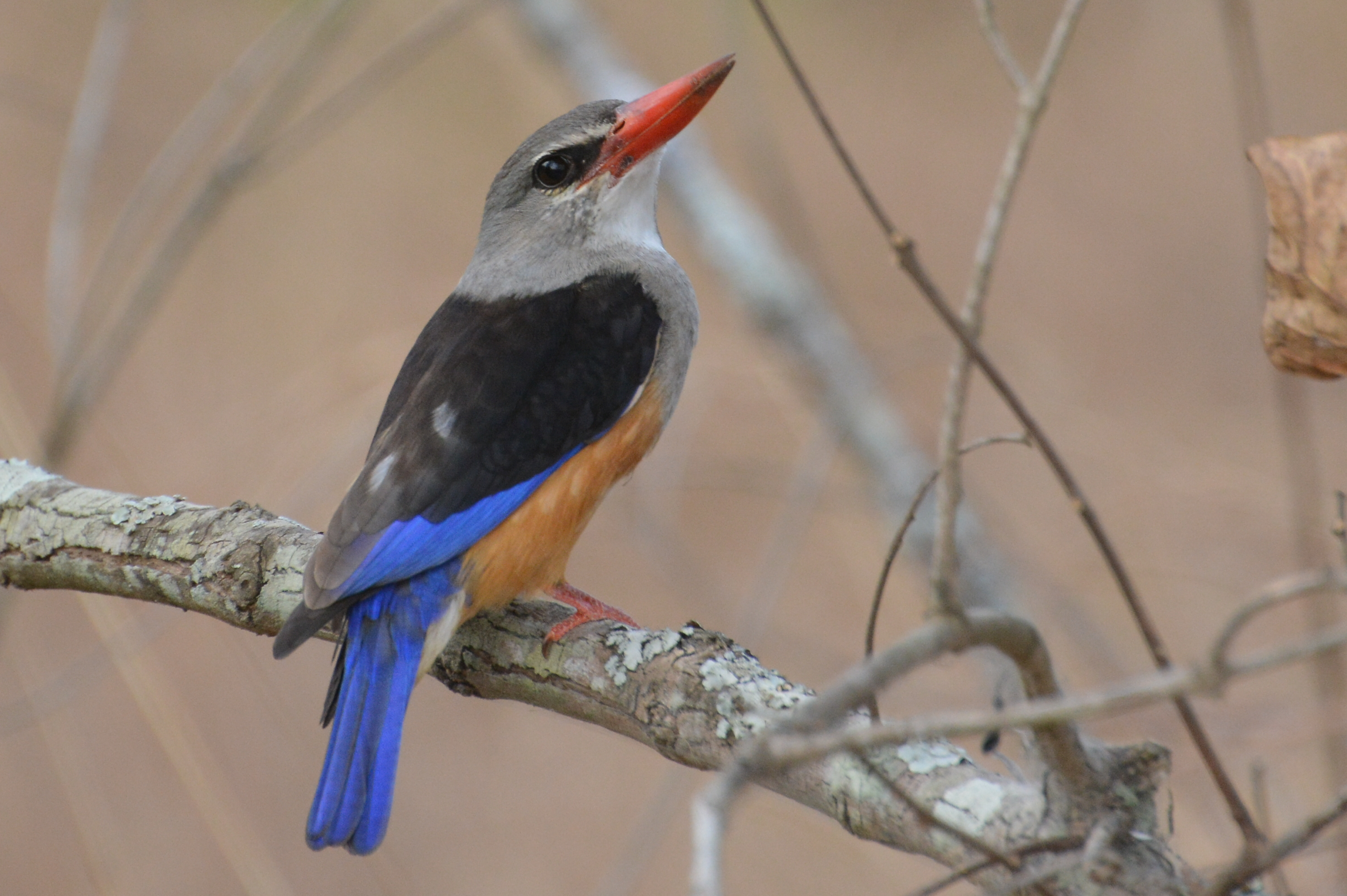 Halcyon leucocephala, July 2014, Akagera National Park (Rwanda).